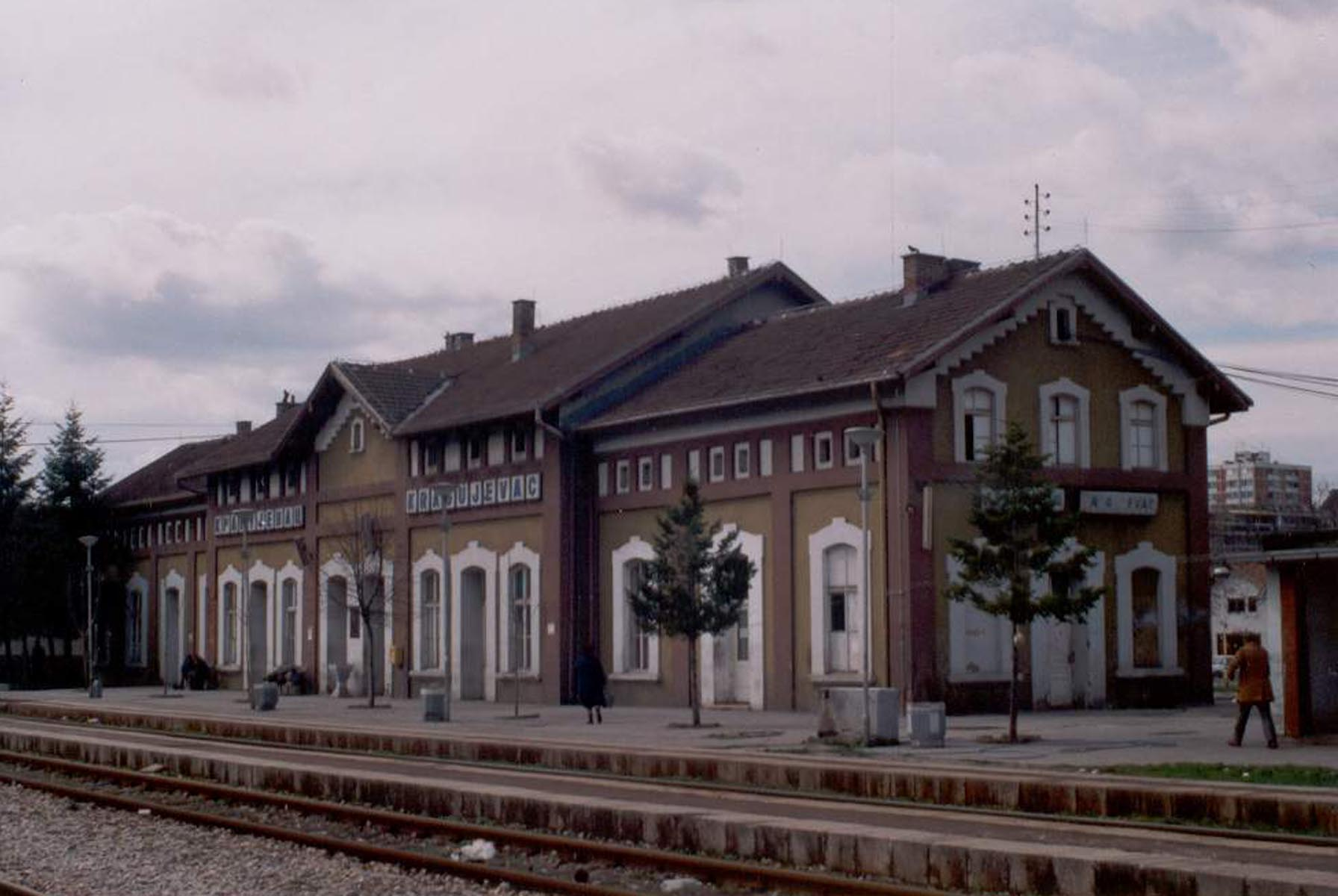 Railway station building in Kragujevac